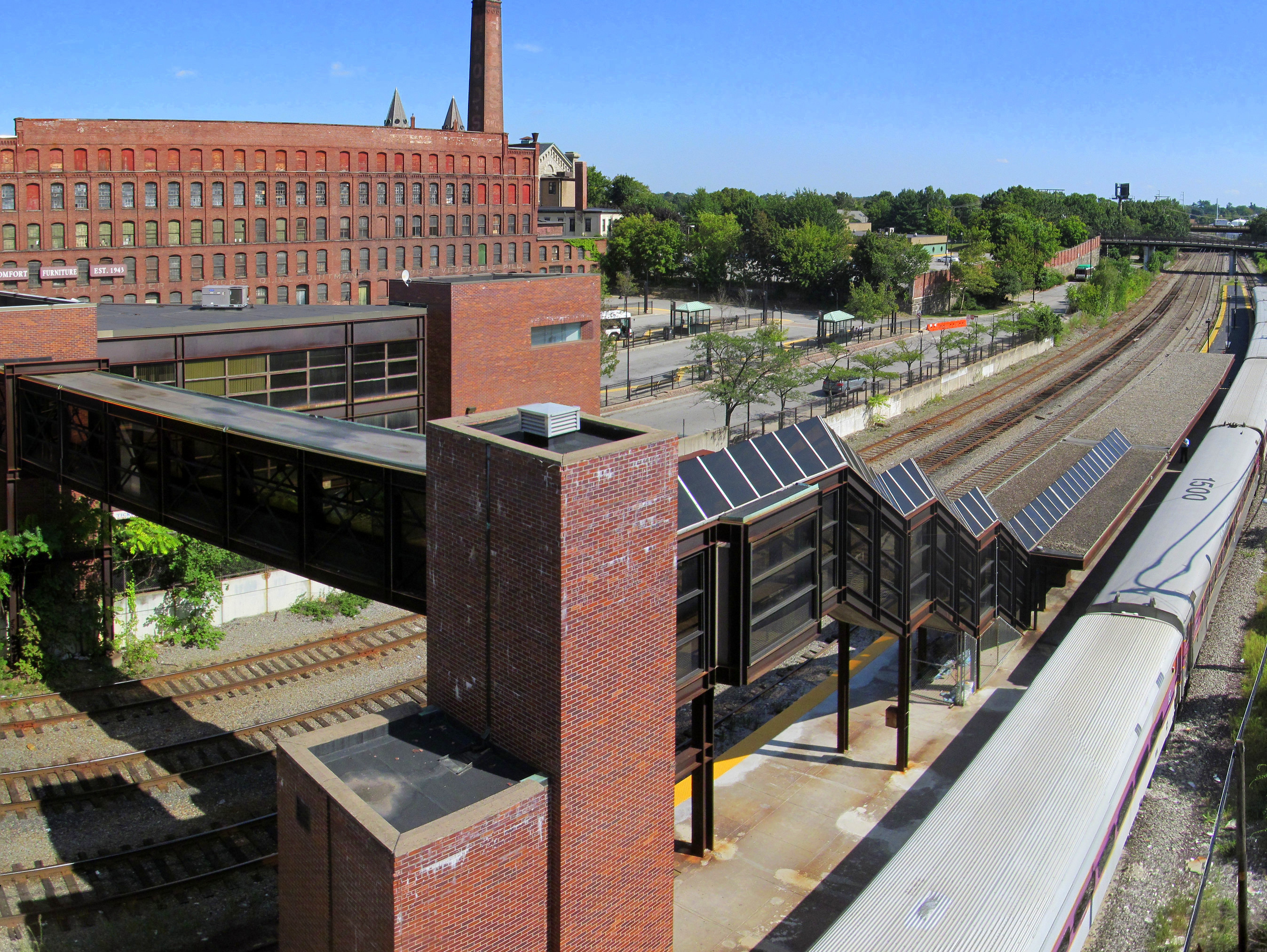 Lowell station viewed from the roof of the west parking garage in August 2012. The commuter rail platform with an MBTA train is at bottom right, the pedestrian overpass at bottom left, the station building at center left, and the bus bays at top center. The brick mill building at top left was the Comfort Bedding and Furniture's Thorndike Showroom from 1946 to 2011.